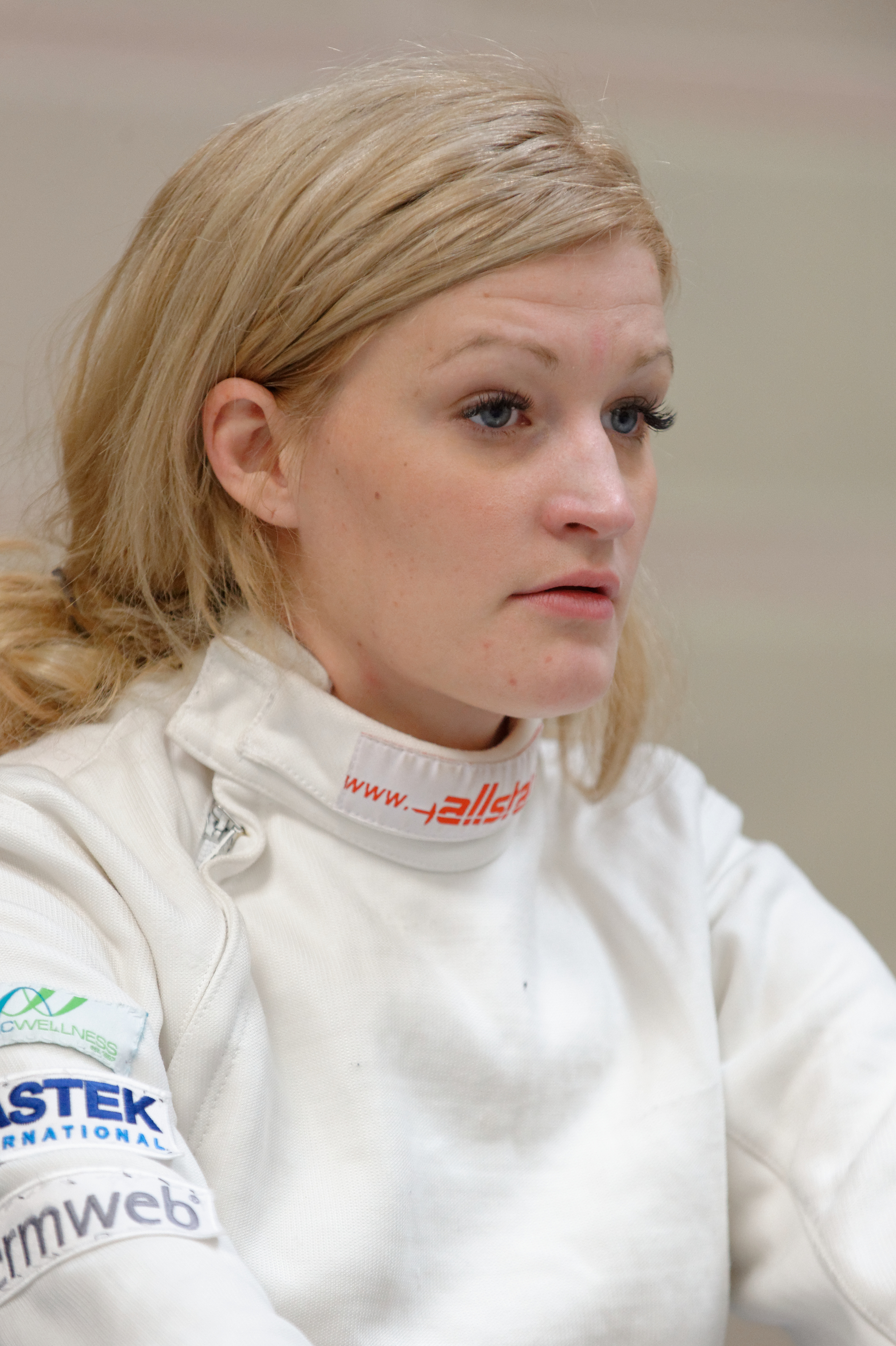 Sweden's Emma Samuelsson during the qualification stage of the 2015 Trofeu International Ciutat de Barcelona, a women's épée World Cup competition.